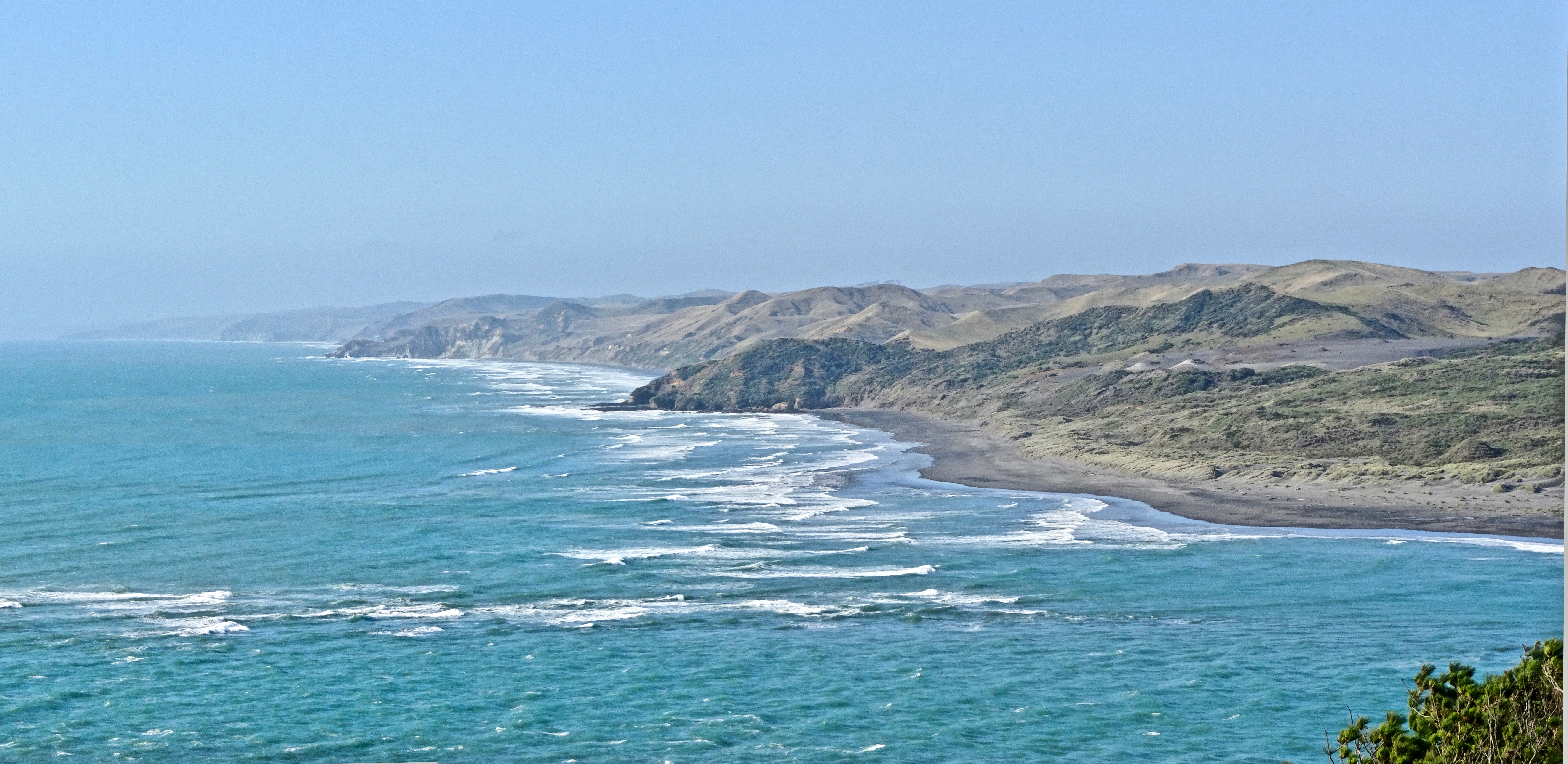 From South Head Trig Point to Whaingaroa bar, shell middens, Te Kaha Pt, Otehe Pt, Ngatutura Pt and the Waitakeres